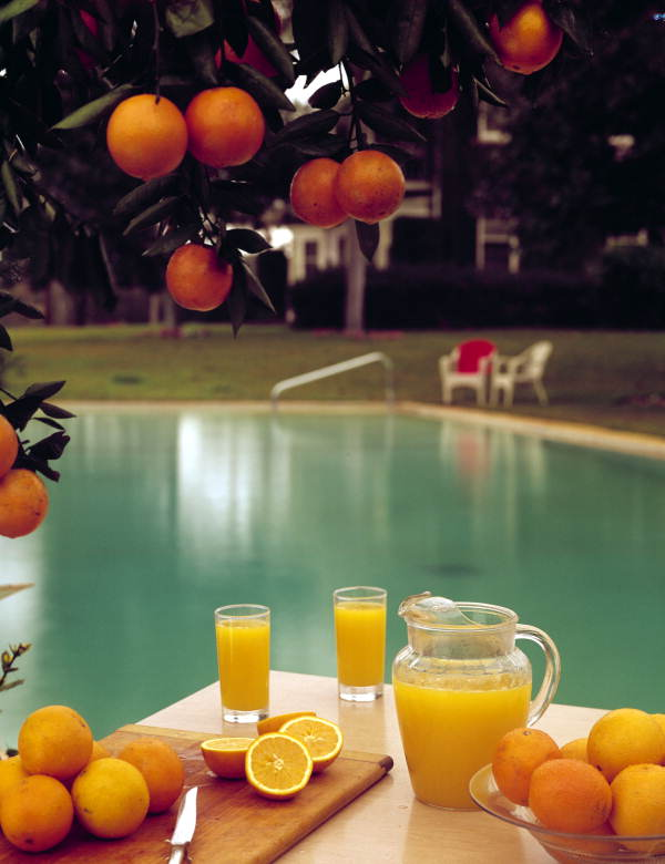 Local call number: DC073120 Title: [State beverage of Florida] Date: 19--. Physical descrip: 1 transparency : col. ; 5 x 4 in. Series Title: (Department of Commerce collection) Biographical note: The 1967 Legislature declared "the juice obtained from mature oranges of the species Citrus sinensis and hybrids is hereby adopted as the official beverage of the State of Florida." Fla. Stat. 15.032. Repository: State Library and Archives of Florida, 500 S. Bronough St., Tallahassee, FL 32399-0250 USA. Contact: 850-245-6700. Persistent URL